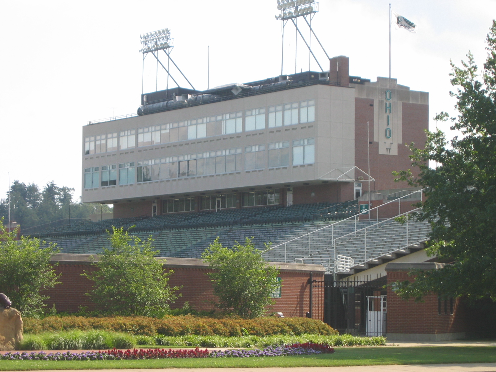 Football & Basketball Facilities Ohio U Football Stadium